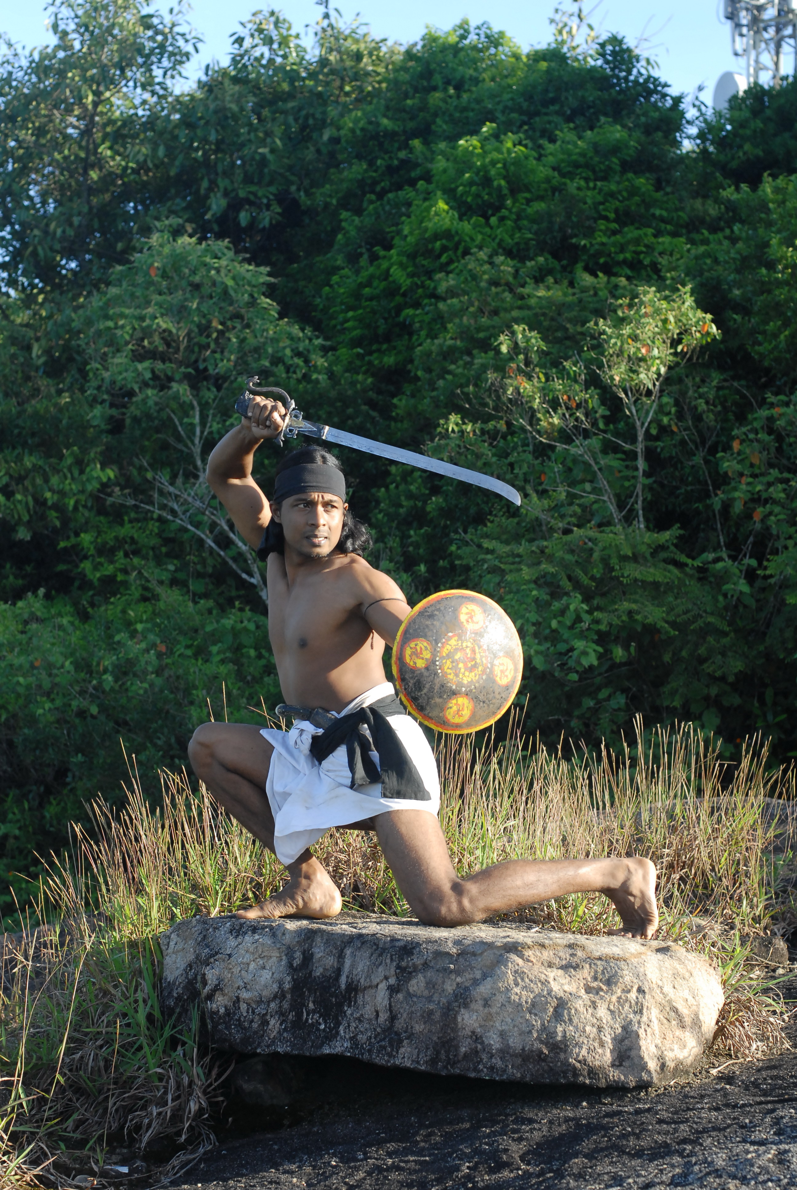 Shield used in Angampora.